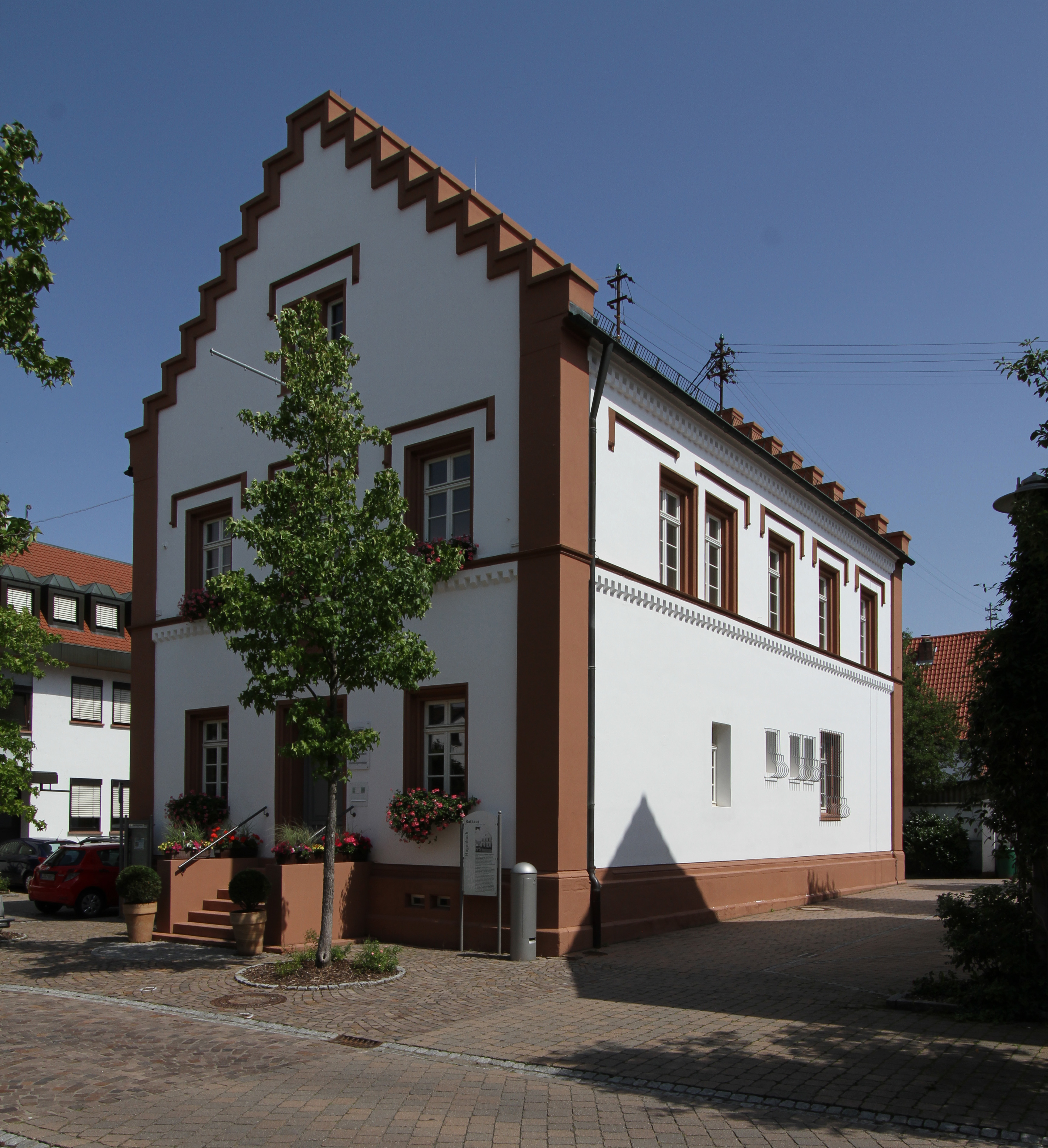 Cultural heritage monument in Hagenbach